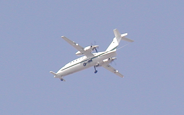 Snapshot of Piaggio P180 Avanti during test flights in Pescara, Italy